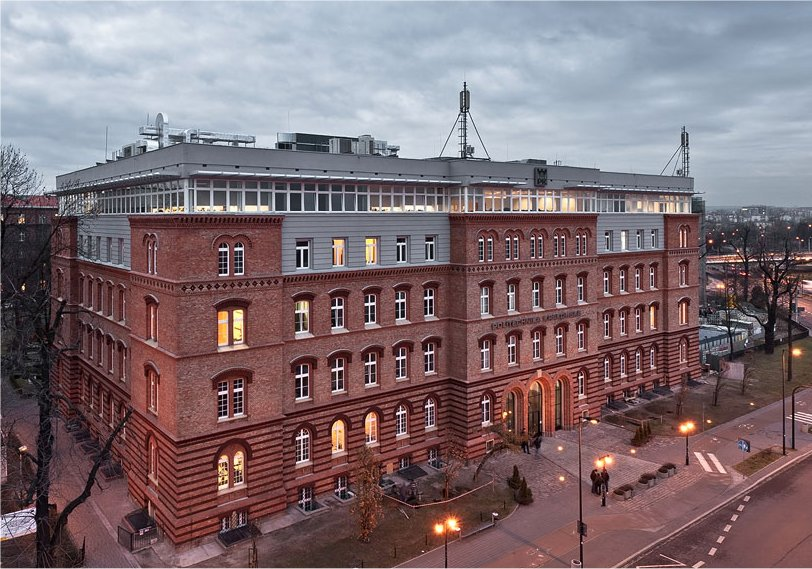 Cracow University of Technology - The Faculty of Civil Engineering